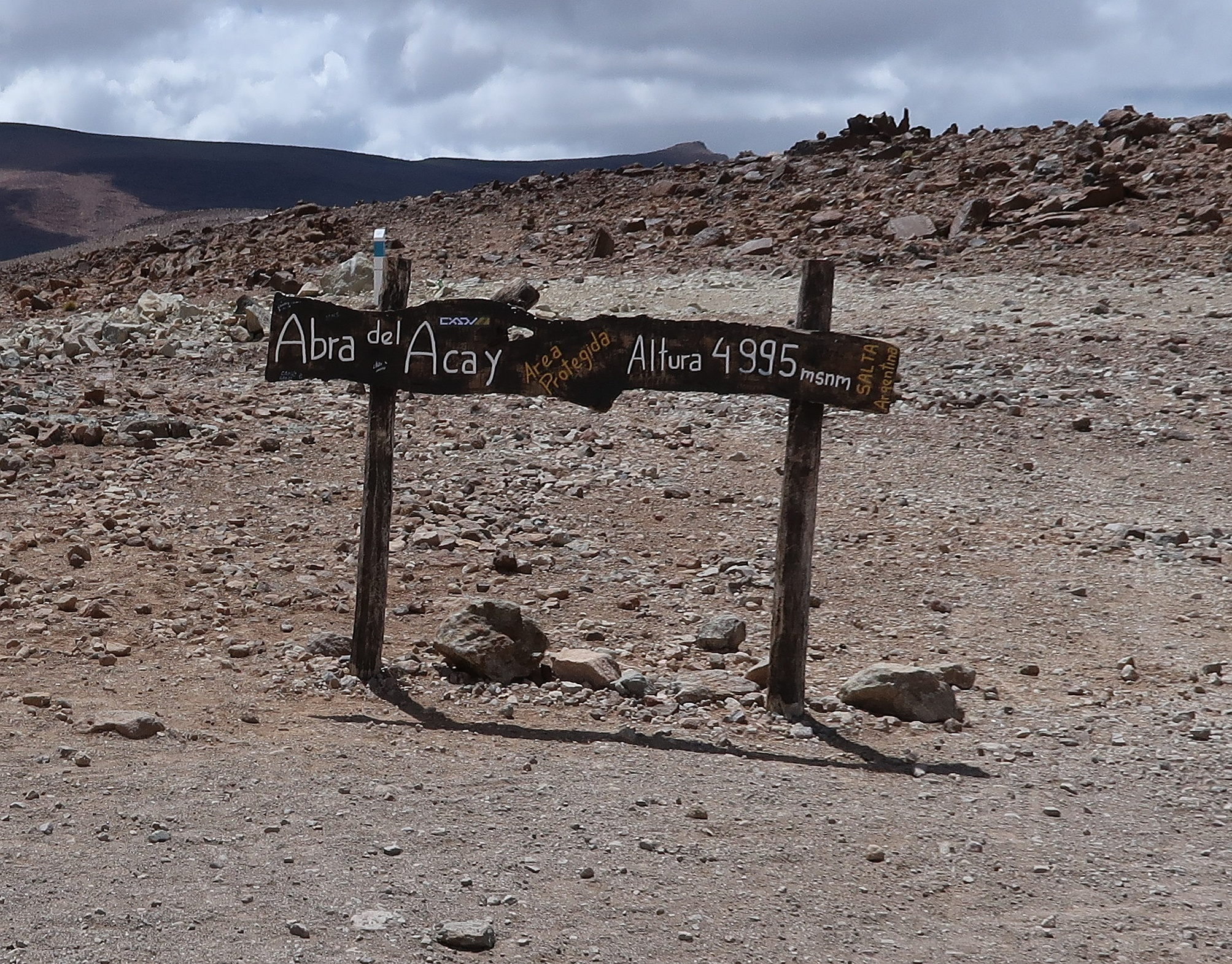 Sign at Abra del Acay pass march 2017